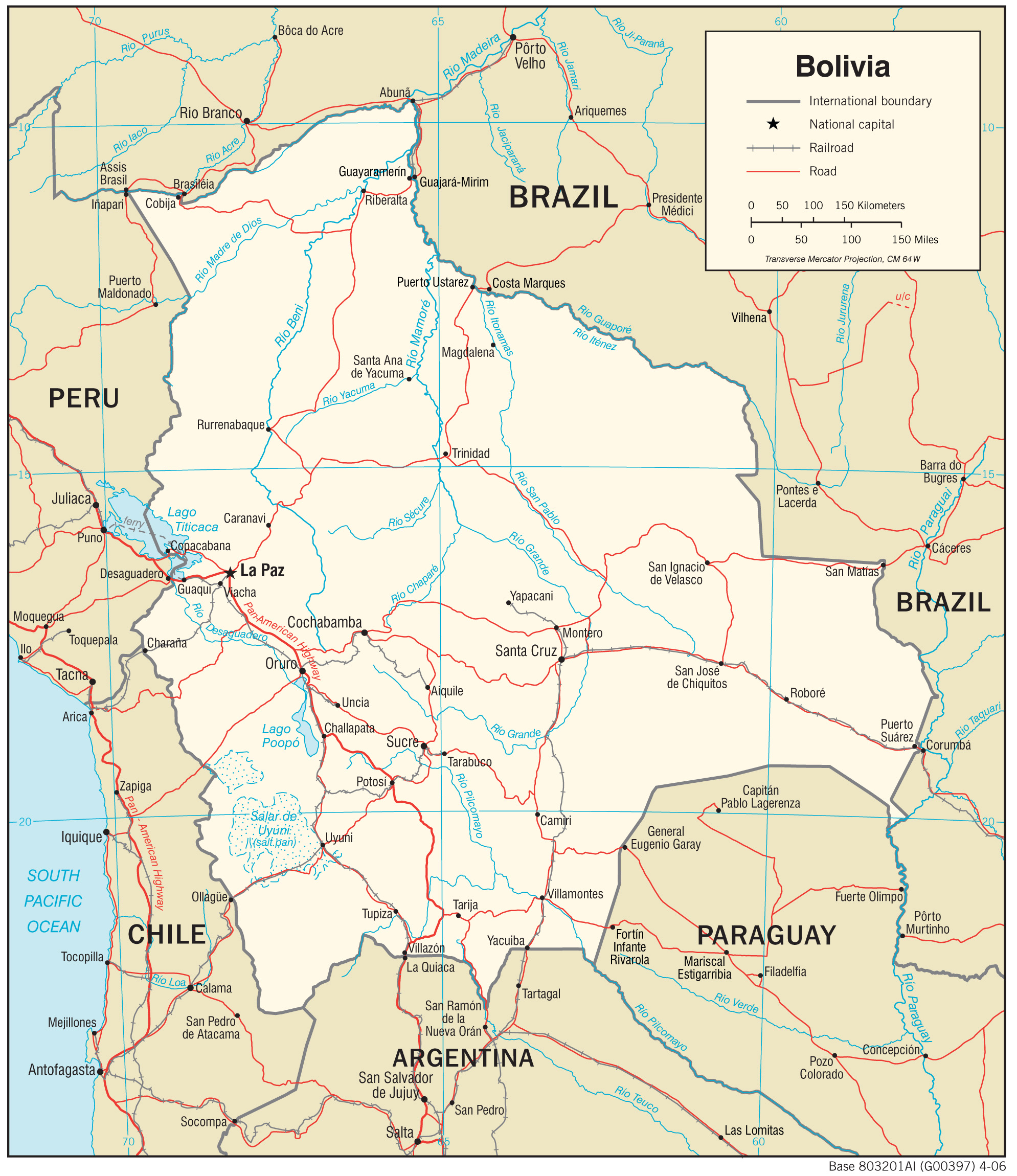 Transport system in Bolivia, 2006.